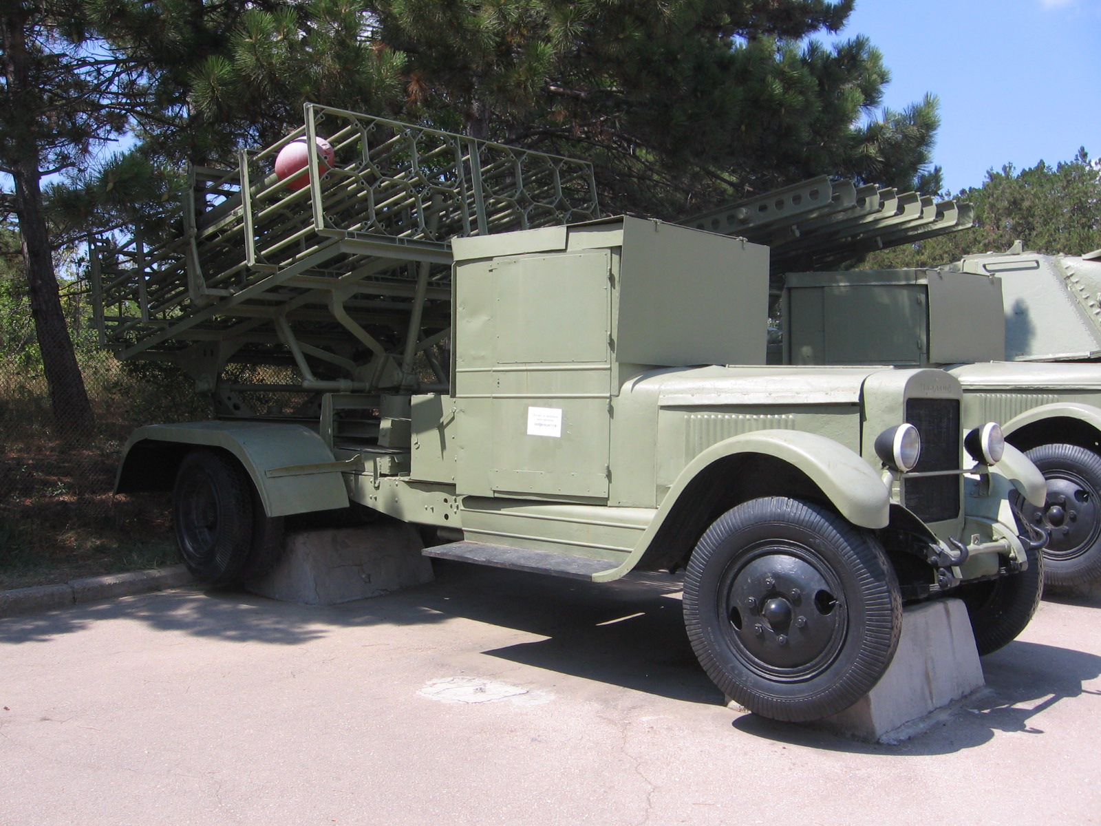 Soviet BM-31-12 on ZIS-12 chassis, with a 310-mm M-31 rocket in the launcher, since 1960 displayed at the Museum of Heroic Defense and Liberation of Sevastopol on Sapun Mountain in Sevastopol.